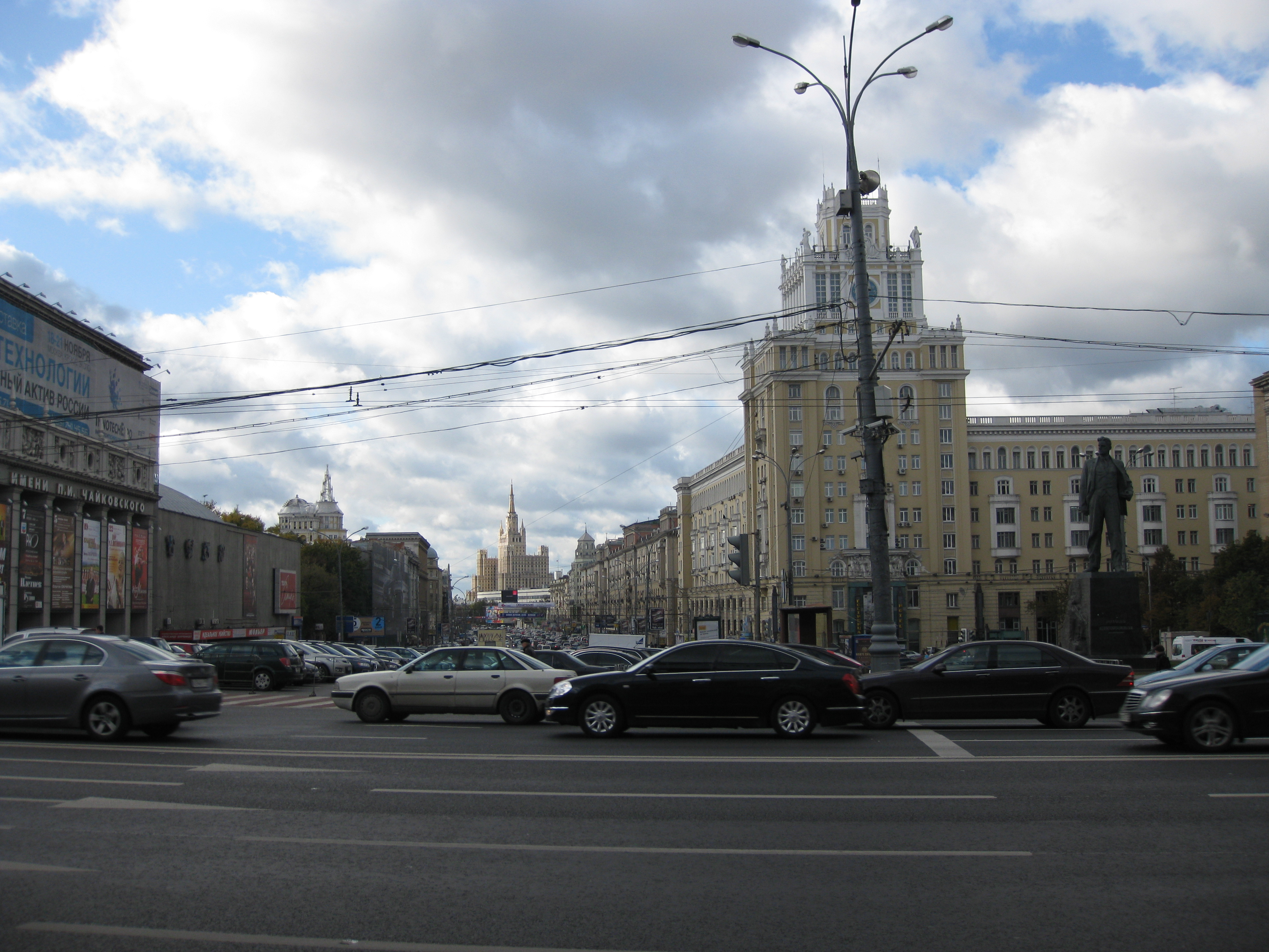 Streets of Moscow